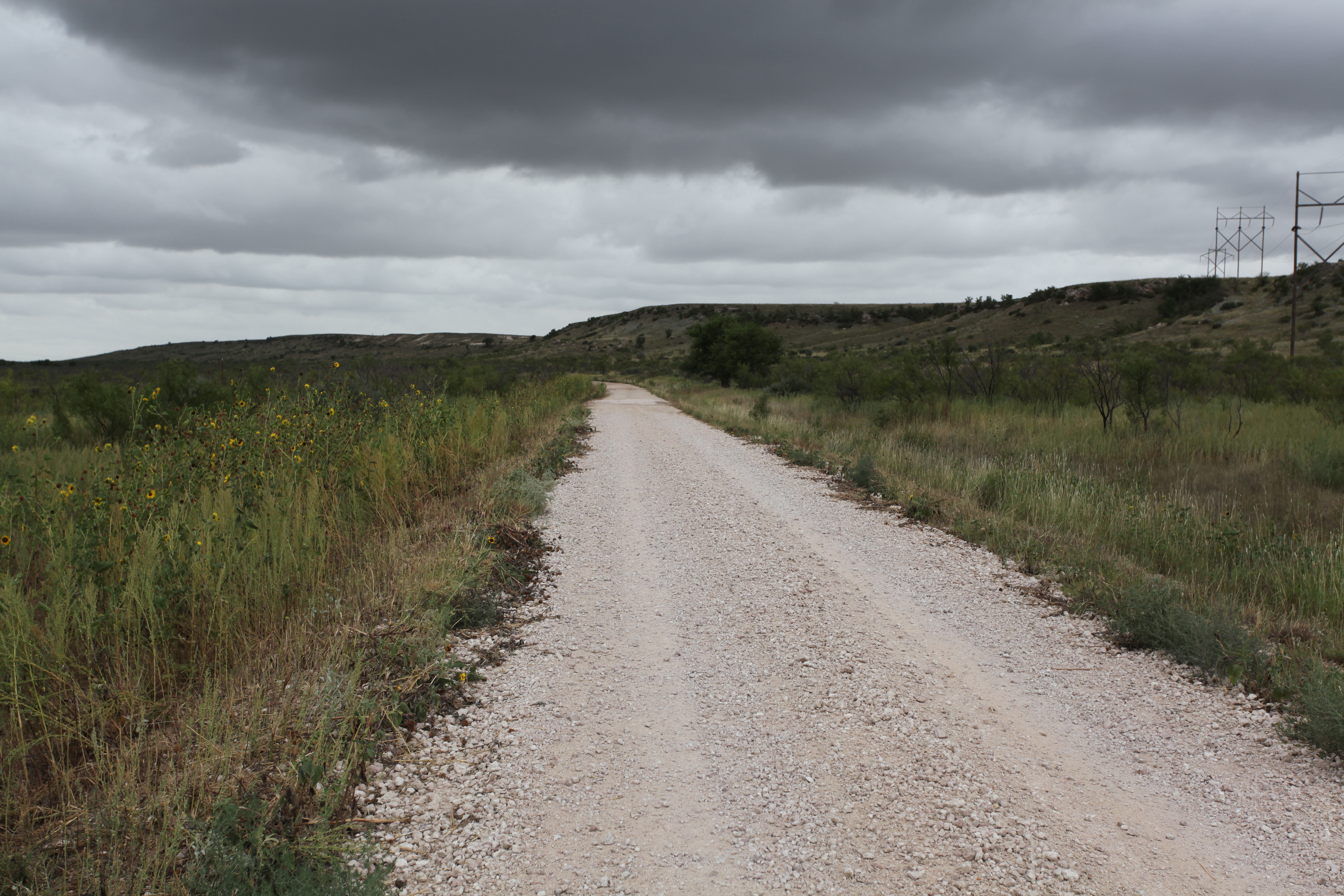 Road to the Yellow House Ranch, Hockley County, Texas.